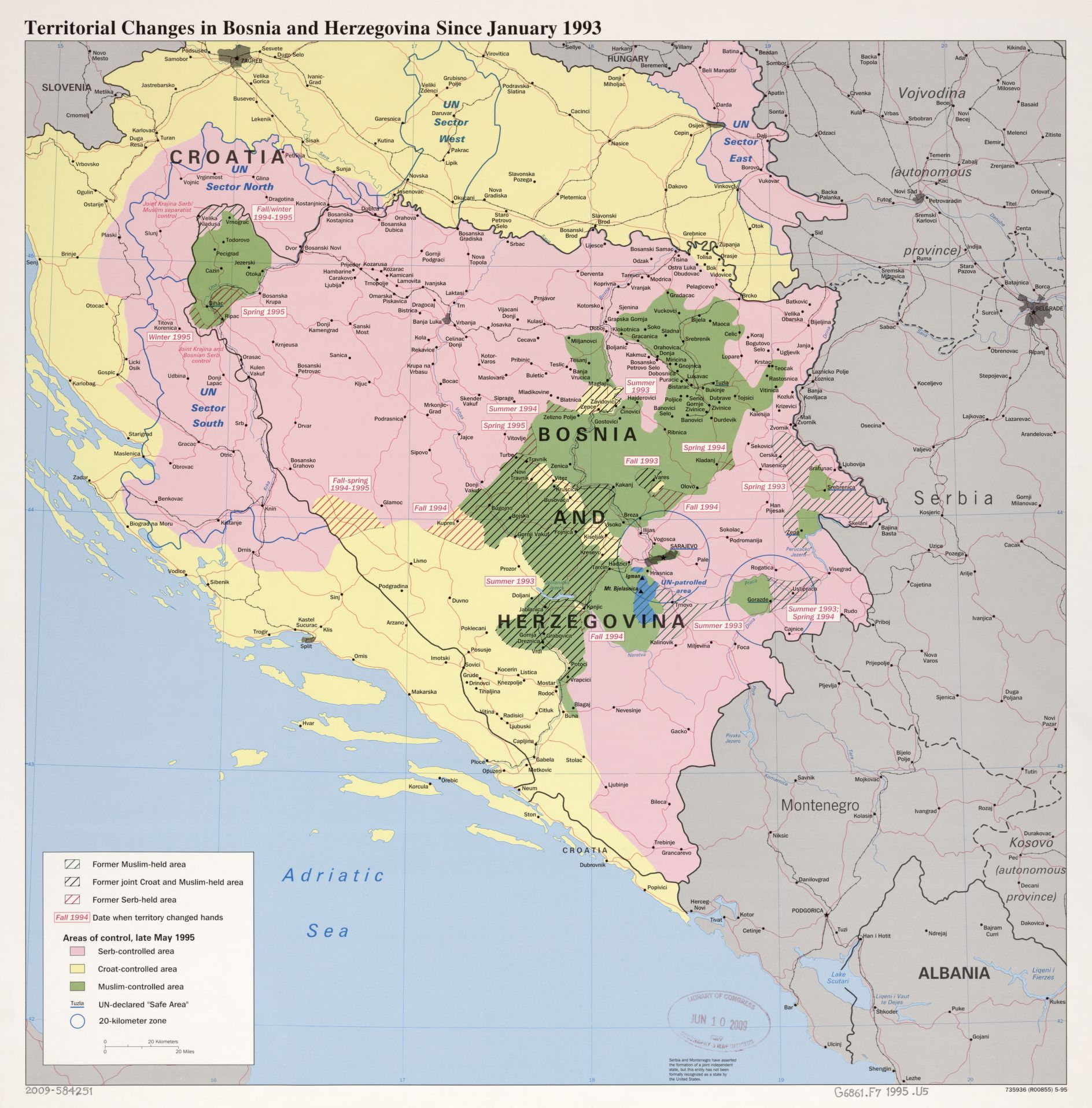 Shows "Areas of control, late May 1995" (Serbian/Croatian/Muslim) and UN-declared safe/patrolled areas. Also shows control areas in Croatia.